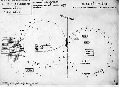 A map from the Vrba-Wetzler report, a report about Auschwitz based on information from Rudolf Vrba and Alfred Wetzler, two Jews who escaped from Auschwitz in April 1944 to warn the Allies and Jewish community about the gas chambers. Their report was sent all over the world and is regarded as one of the most important historical documents of the 20th century. Both authors have died. The men's information and maps was compiled and sent to world leaders by members of the Judenrat in Slovakia. The report was eventually sent to the U.S. War Refugee Board, which was the first to publish it in full, along with other reports about Auschwitz, which have jointly come to be known as the Auschwitz Protocols. The English translation was completed by the Office of Special Investigations of the U.S. Department of Justice. I have therefore tagged this image as being a work of the United States government. The first known date of publication of the full report, along with the maps, was November 25, 1944, by the U.S. War Refugee Board. Note: The map may appear to be upside down because the English in the top right corner is upside down, but the Yiddish appears to be the right way up.